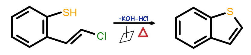 Benzothiophene synthesis from o-mercapto-beta-chloro-styrene